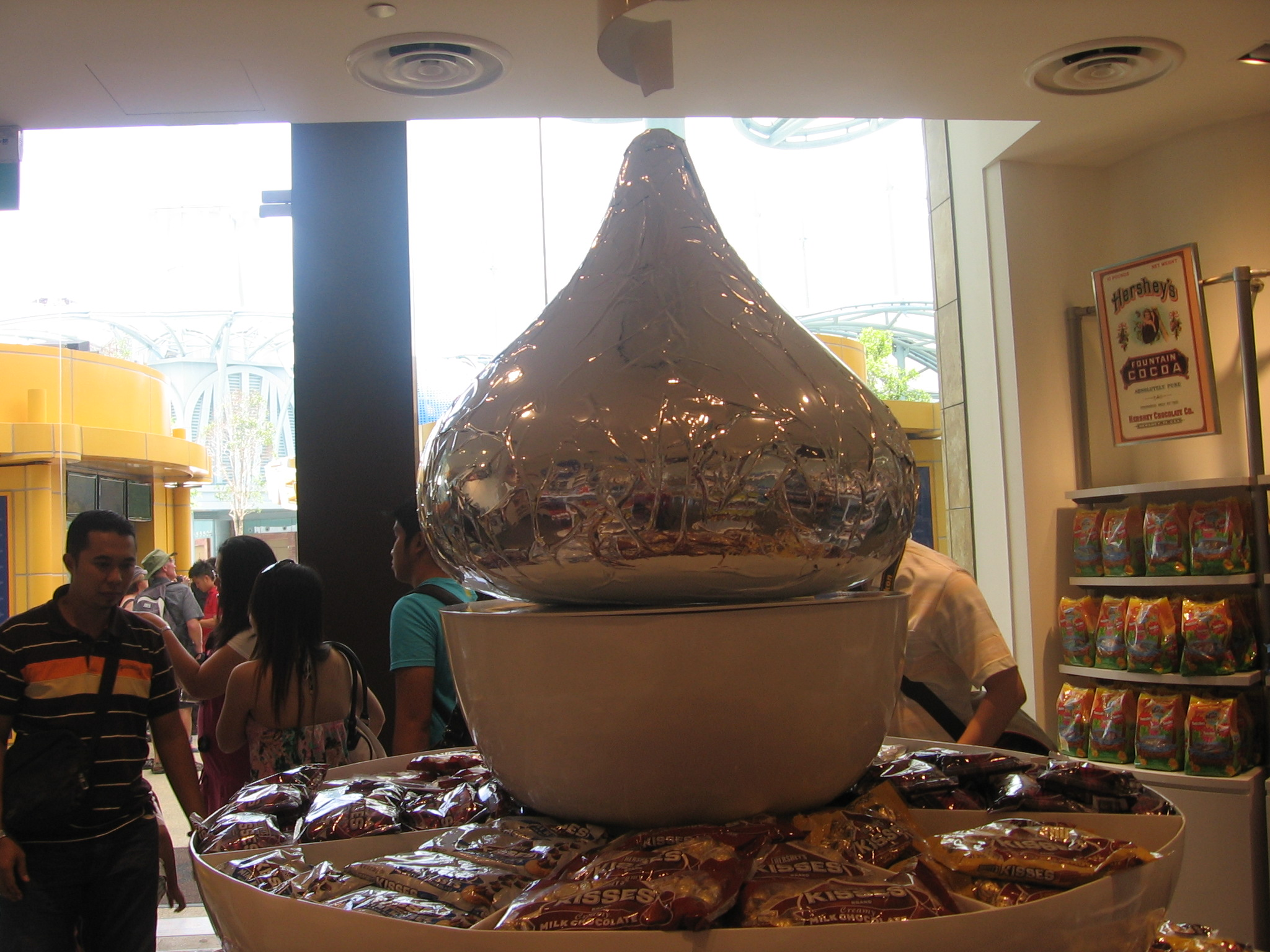 A display of a Hershey's Kisses photographed in Singapore